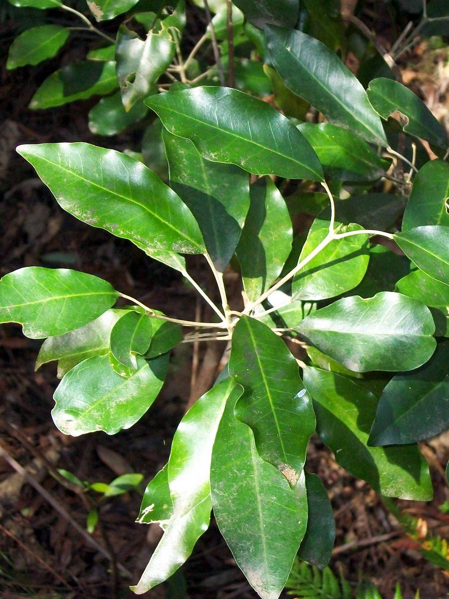 Acronychia wilcoxiana labeled at Stoney Ridge, Dee Why, NSW, Australia